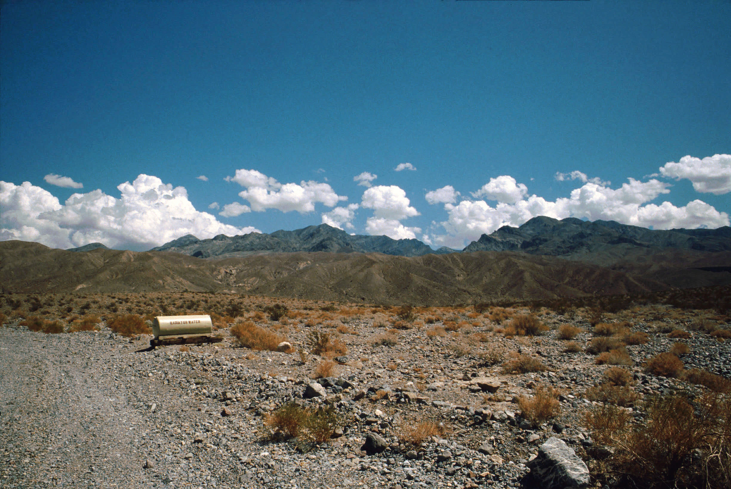 Death Valley,Desert,radiator water tank